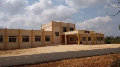 Tamiluniversity Developing Tamil faculty building தமிழ்ப்பல்கலைக்கழக டு வடிவ வளர்தமிழ் புலக்கட்டடம்